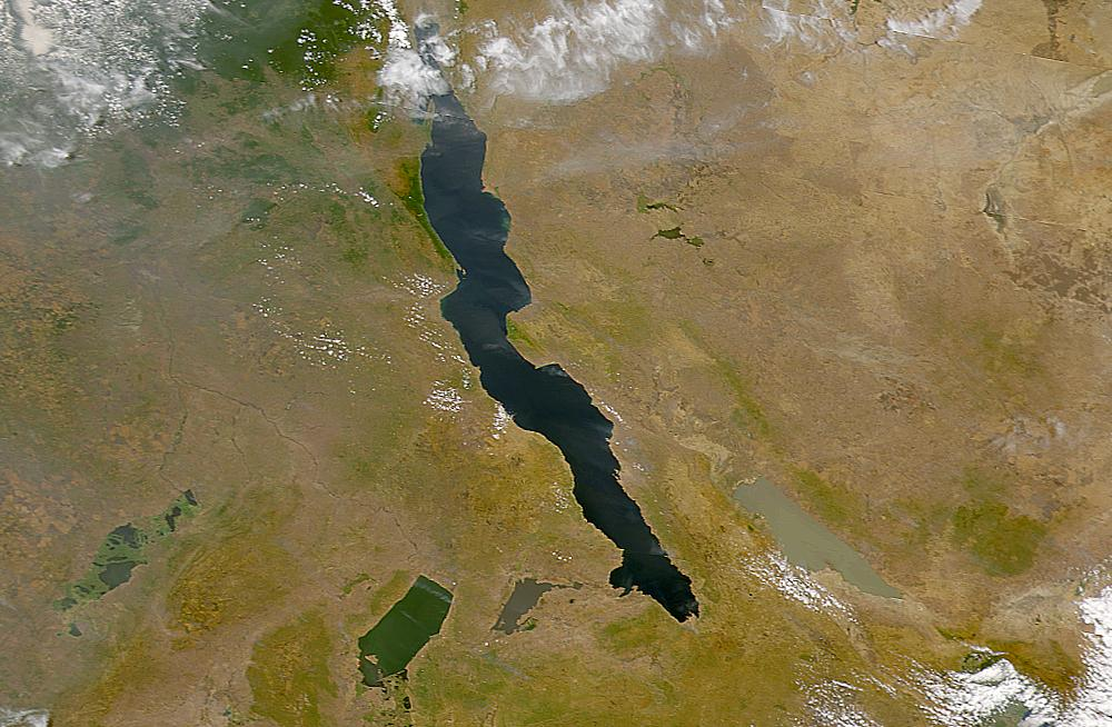 The lakes of the African Rift Valley exhibit wide variations in water color as can be seen in this SeaWiFS image. From left to right the lakes are: Lake Upembe, Lake Mweru, Lake Tanganyika (largest), and Lake Rukwa. This image spans the southeastern corner of the Democratic Republic of the Congo, northeastern Zambia, and southern Tanzania.